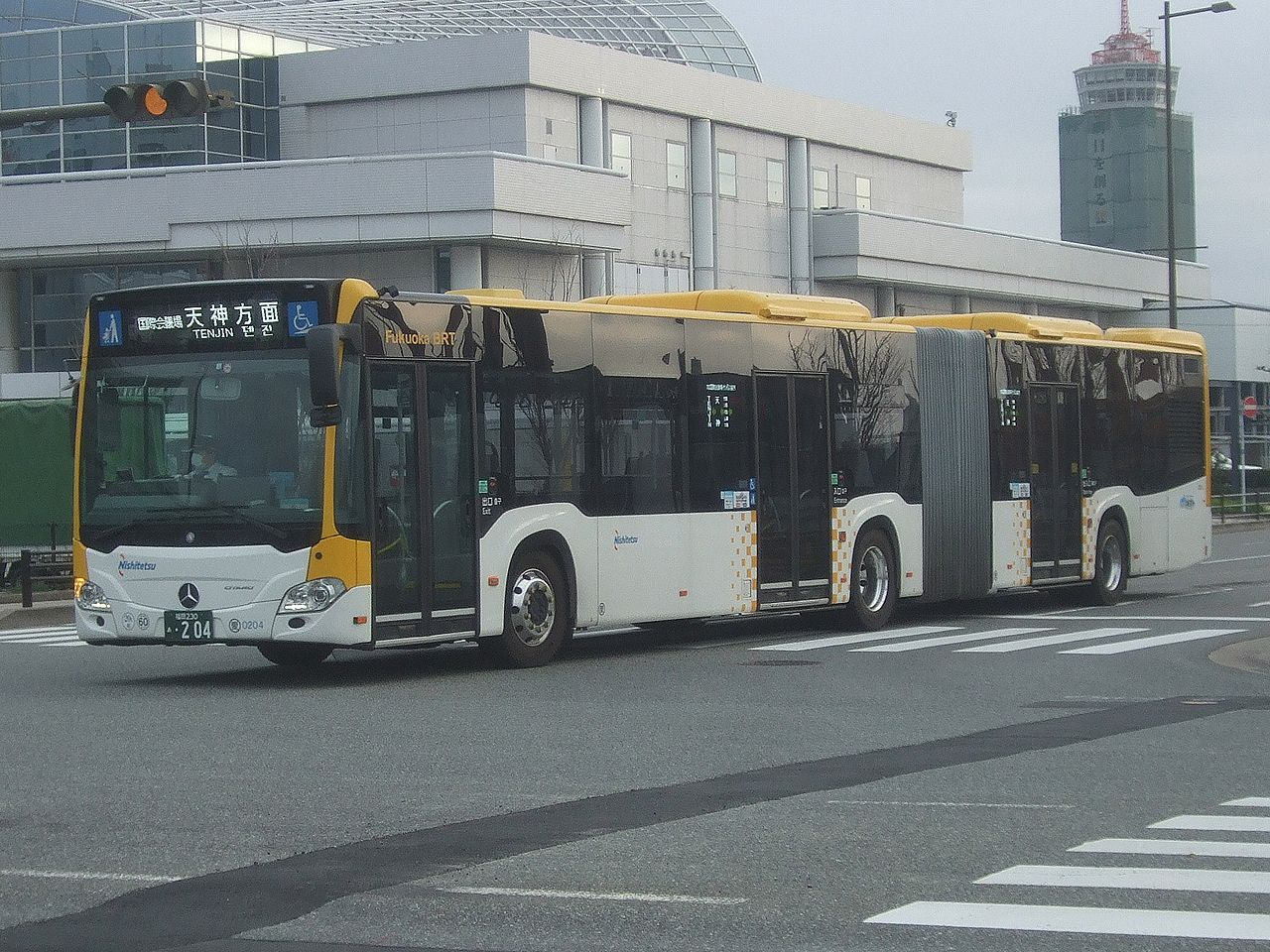 Fukuoka BRT Company:Nishi-Nippon Railroad Use:transit bus Belongs to:Atagohama depot Car license:FOF 230 A 204 Code:0204 Chassis manufacturer:Mercedes-Benz Type:Citaro G Coachbuilder:Volgren Australia Location:near Hakata Port international terminal, in Hakata Ward, Fukuoka City, Fukuoka, Japan.